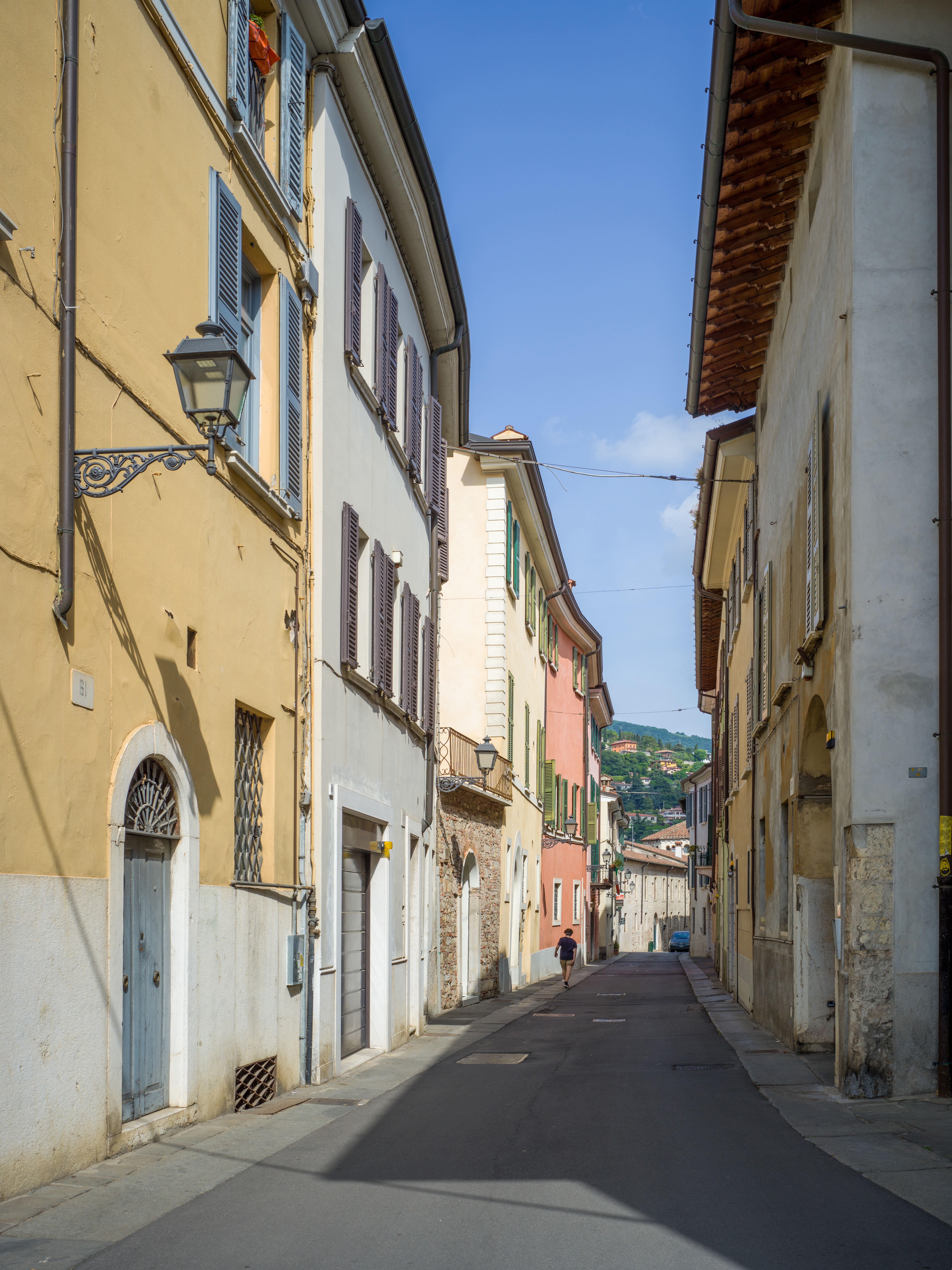 Via dei Musei in Brescia.